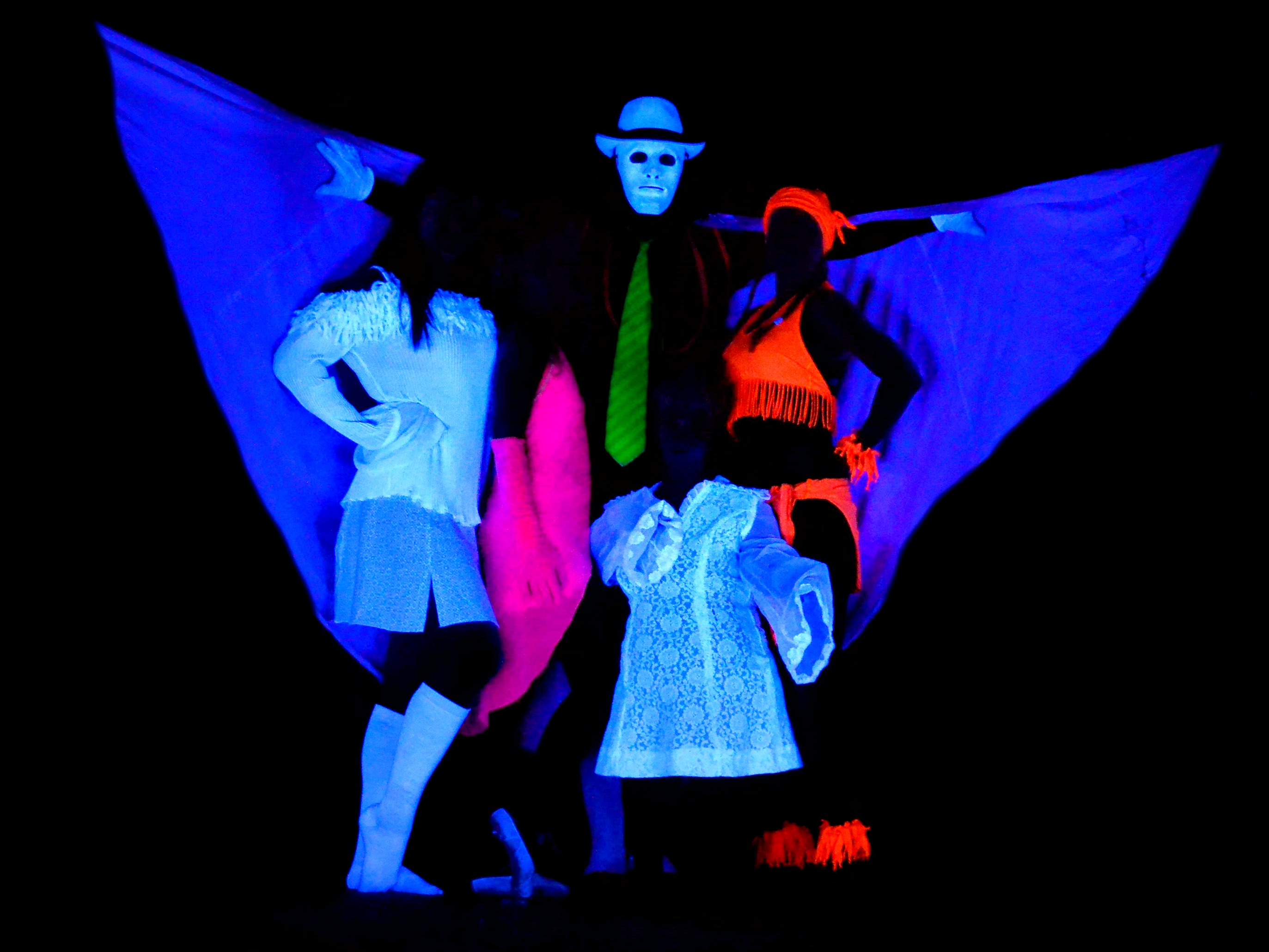 Phantom black light theatre is the compilation of 15 different short parts. It shows the best of this theatre group HILT in last ten years 2007-2017 (it is the 10th anniversary of HILT). "Black light theatre" is the very special theatre genre based on optical effects of darkness and UV lighting. This genre is the world known originality of The Czech republic since 1955. Costumes and stage props are "shining" in the dark making visual illusions - like for ex. flying dancers on black background. Each part of this show is different style - love, autumn, winter or Africa, India, Czech folklore and more. Each part is different style of music and dance choreography in combination with visual effects of UV lighting and projections. Masked person as "Phantom" is opening each part of the show.